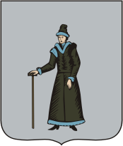 Staritsa (Tver oblast), coat of arms (1780)